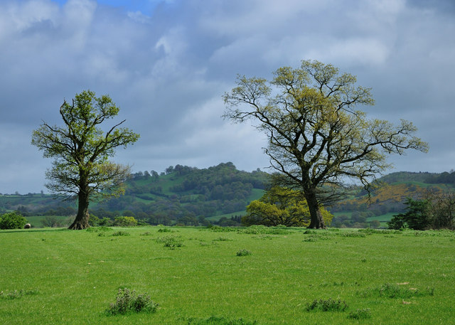 Roman Fort - but hard to see! Caersws village stands at the confluence of the Afon Carno with the River Severn in Powys; it is the site of two early Roman forts. The first (Caersws I) was a large fort, in the picture, is perhaps Neronian or late-Claudian in date, sited in a bend of the Severn about ¾ mile to the east of Caersws Village.